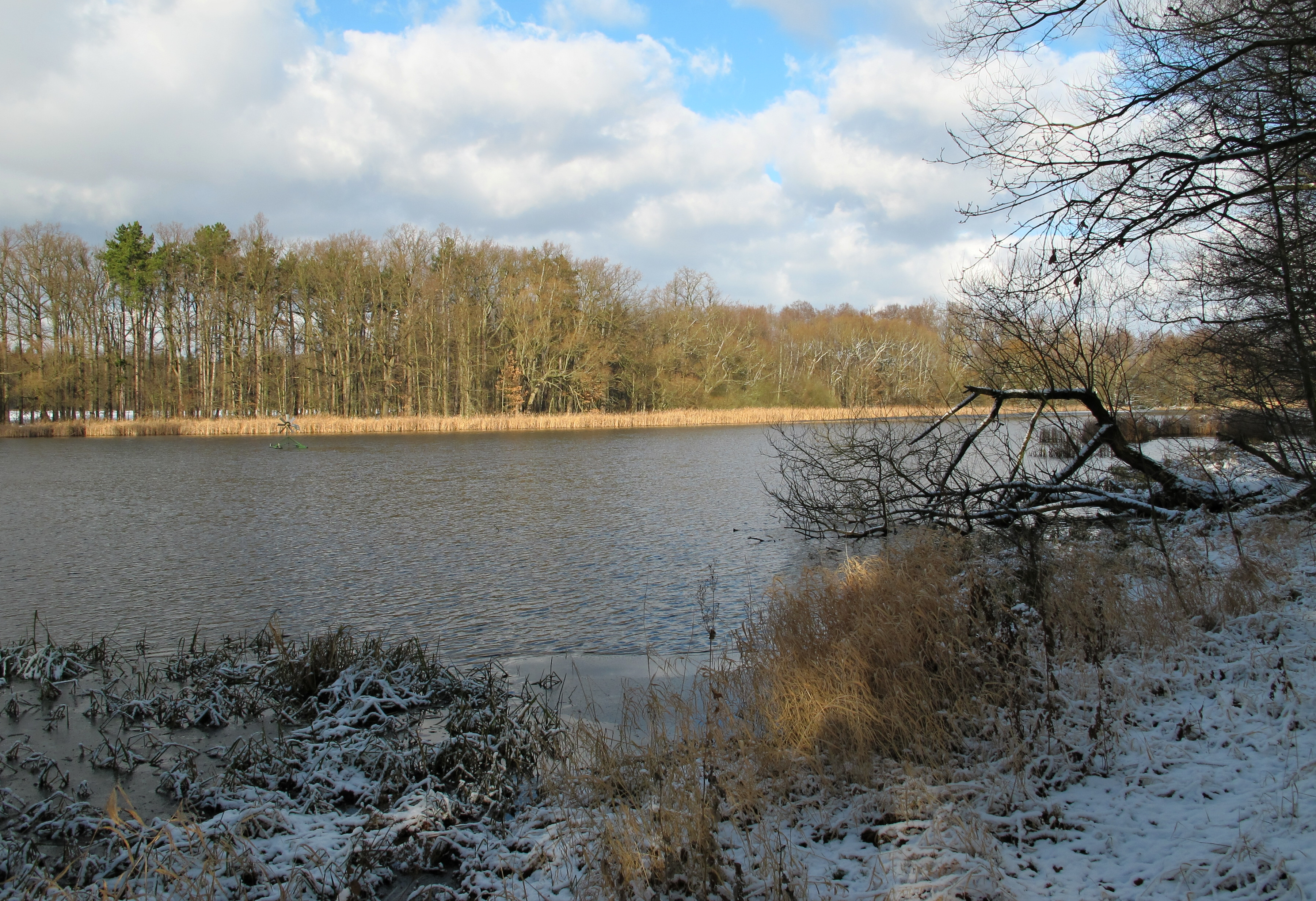 Natural monument Pařezitý near Svaté pole, Příbram District in Czech Reublic